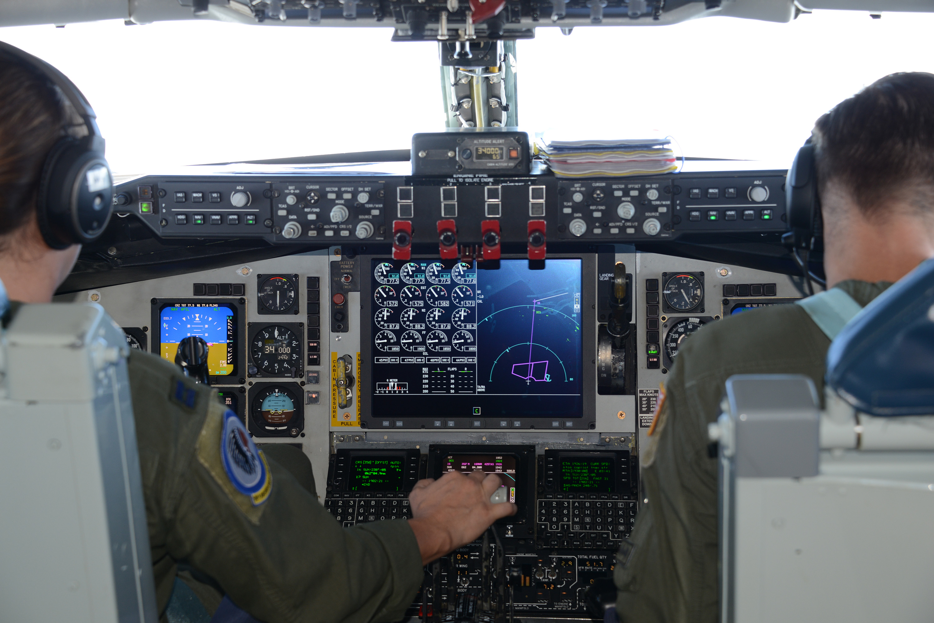 Pilots with the Iowa Air National Guard’s 185th Air Refueling Wing’s fly the unit’s first KC-135 aircraft converted with the newest digital avionics cockpit instruments, known as the Block 45 modification, back to Sioux City, Iowa on August 25, 2017. The new instrument panel replaces the radio altimeter, auto-pilot, digital flight director on the center column of the cockpit.